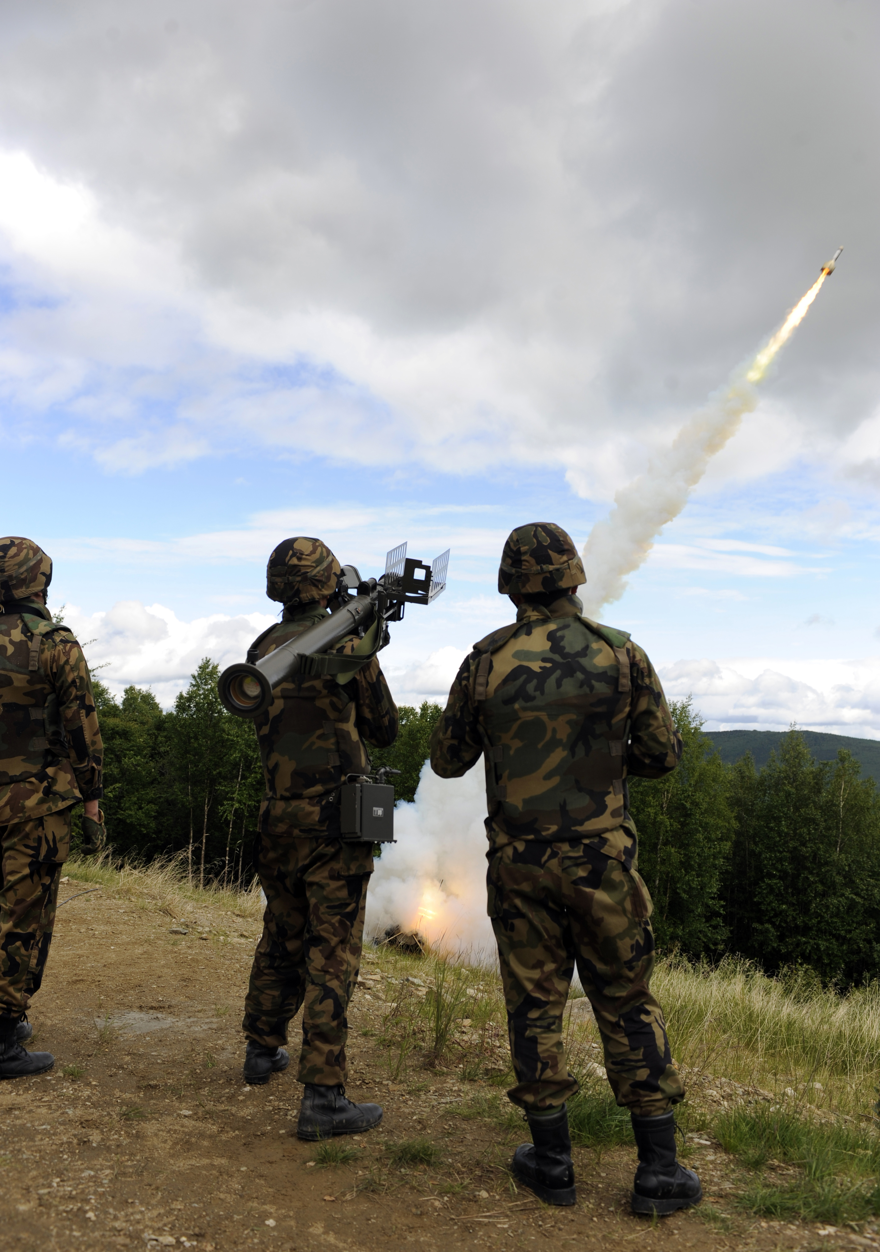 A Japanese Air Self-Defense Force service member fires a mock FIM-92 Stinger June 16, 2010, Eielson Air Force Base, Alaska. The mock stinger fires a laser that shows up as a surface-to-air missile on aircraft radar. This training operation was part of the joint multinational exercise Red Flag - Alaska.